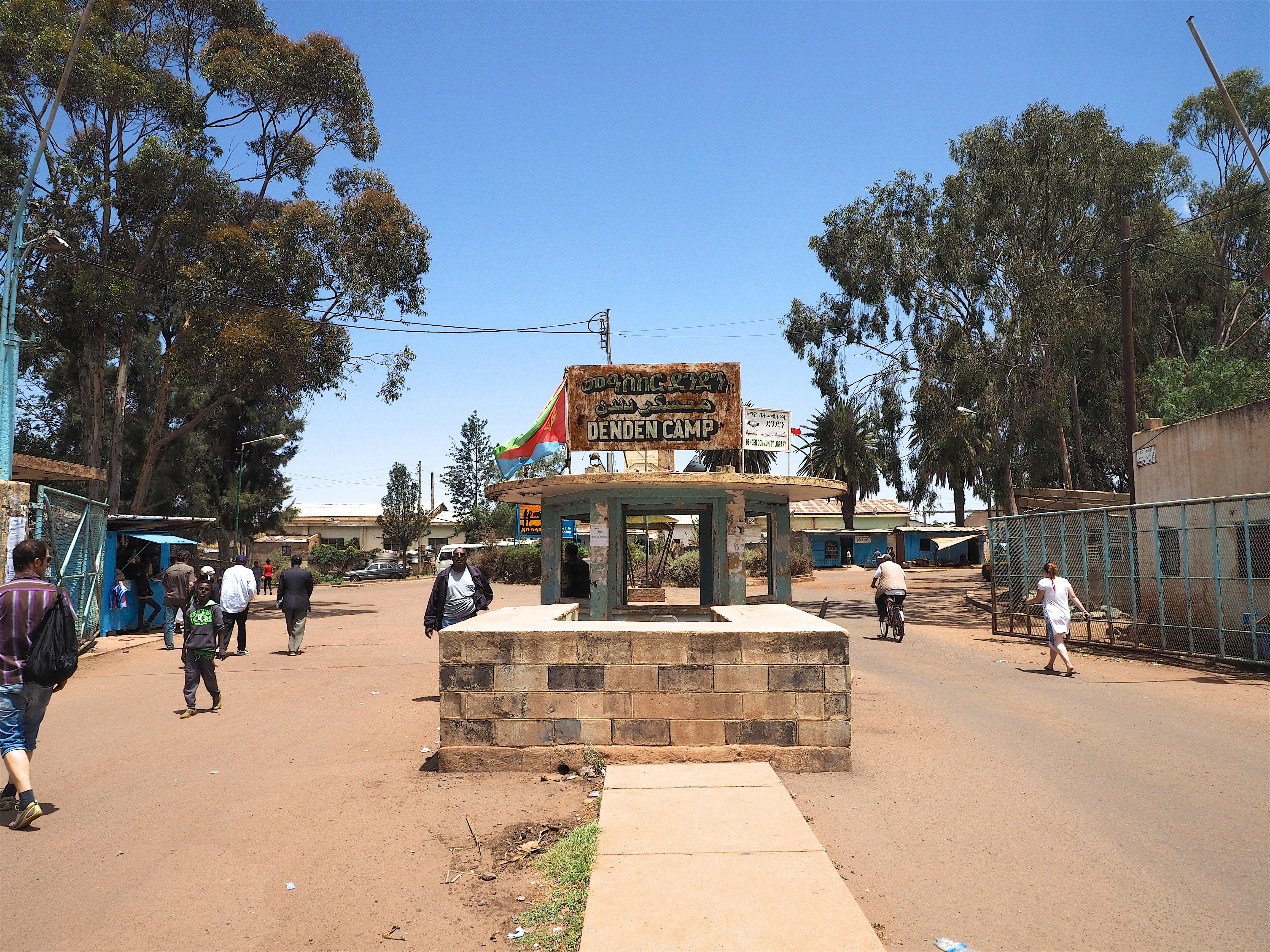 From Wikipedia, the free encyclopedia Kagnew Station was a United States Army installation in Asmara, Eritrea on the Horn of Africa. The installation was established in 1943 as a U.S. Army radio station, taking over and refurbishing a pre-existing Italian naval radio station, Radio Marina, after Italian forces based in Asmara surrendered to the Allies in 1941. Kagnew Station operated until April 29, 1977, when the last Americans left. The station was home to the United States Army's 4th Detachment of the Second Signal Service Battalion.